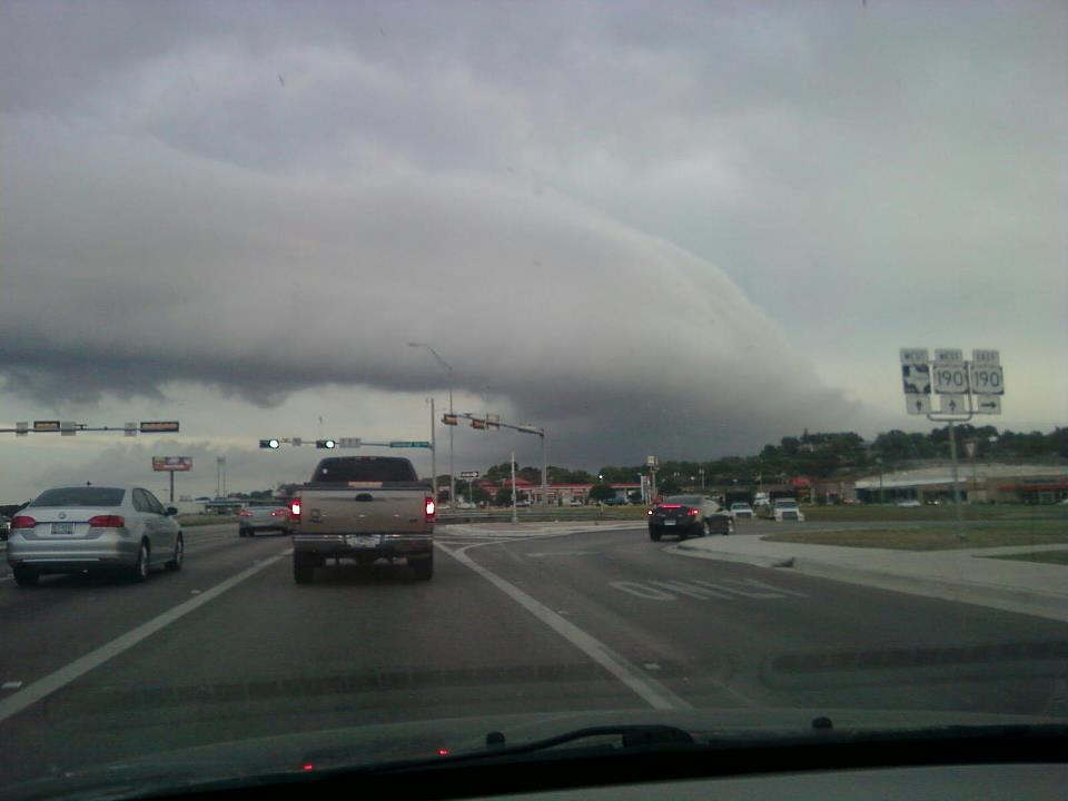 Roll cloud at the Intersection of FM 2410 and Highway 190 in Harker Heights, TX.